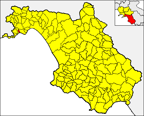 Locator map of the municipality of Minori (red) within the Province of Salerno